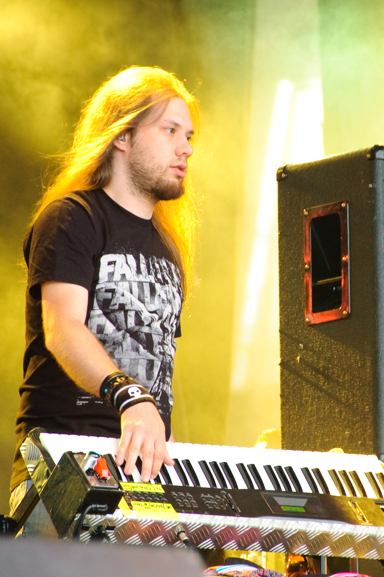 Keyboardist Janne Wirman of Children of Bodom performing at the Ilosaarirock festival in Joensuu, Finland.